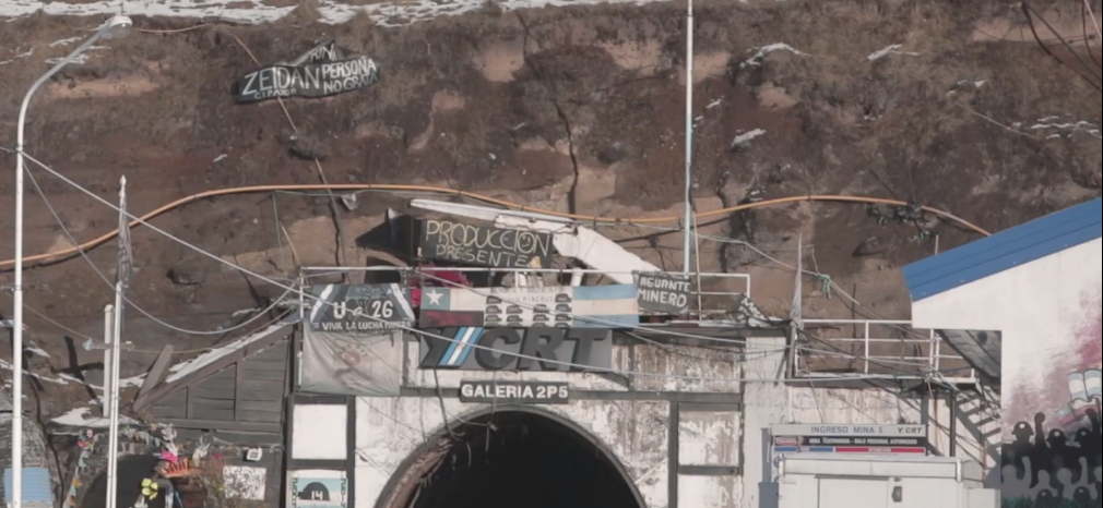 Access to Yacimientos Carboníferos Río Turbio coal mine gallery 2P5